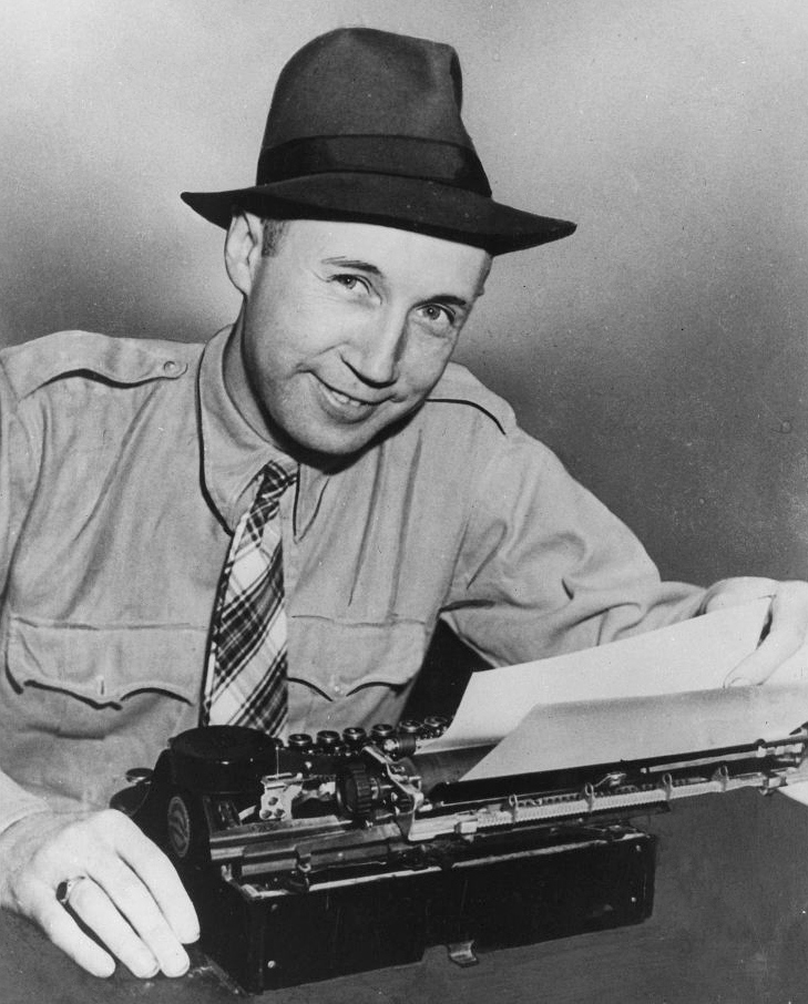 Photographer: William James ca. 1930 City of Toronto Archives Fonds 1244, Item 2086